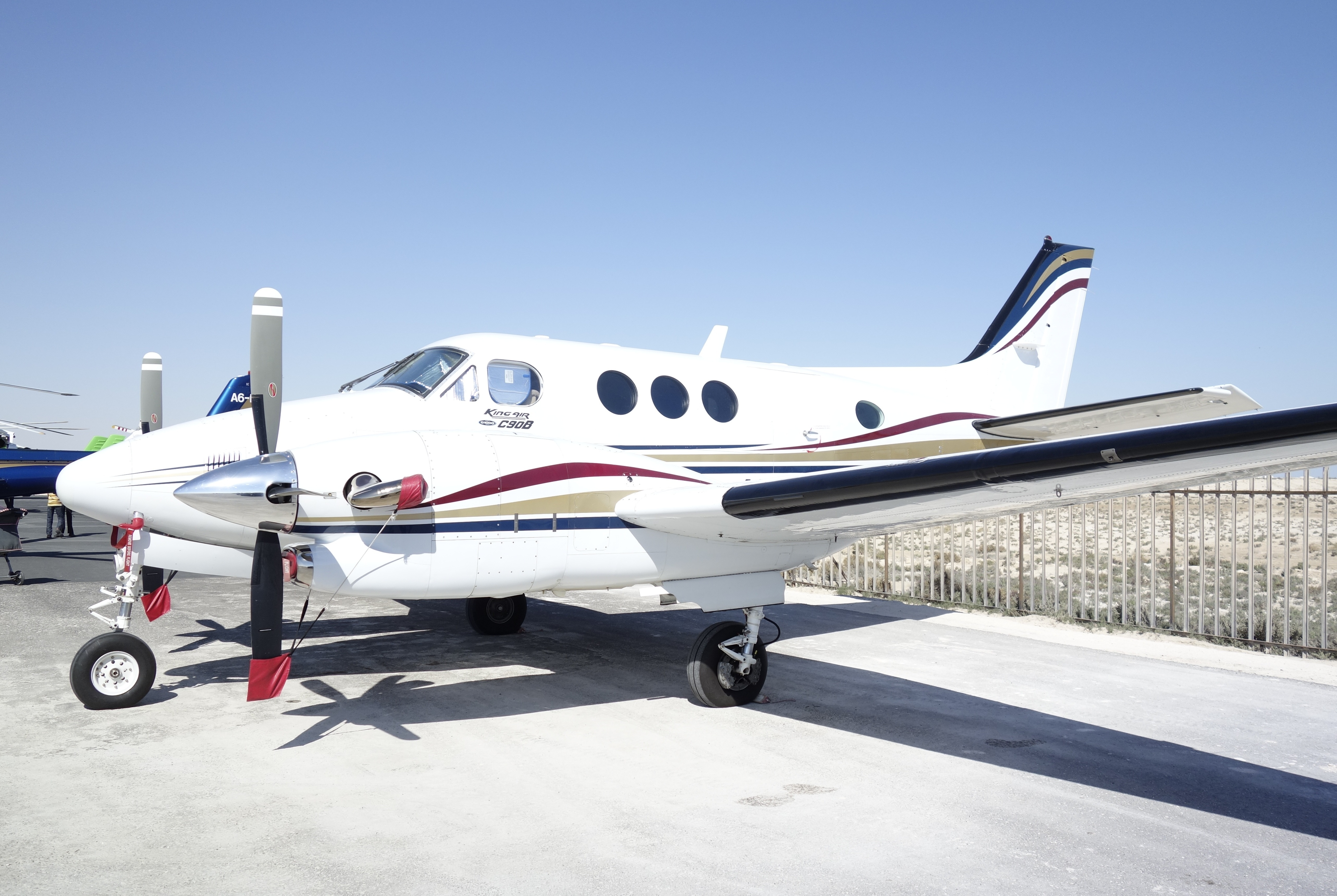 Aircraft Pictured at Al Khor Airport in Qatar.